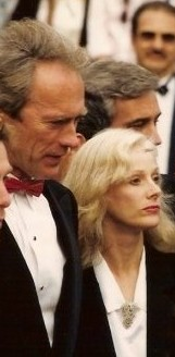 Clint Eastwood and Sondra Locke promoting the film "Bird" at the Cannes film festival